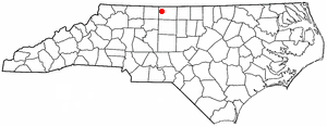 Category:North Carolina Dot Maps